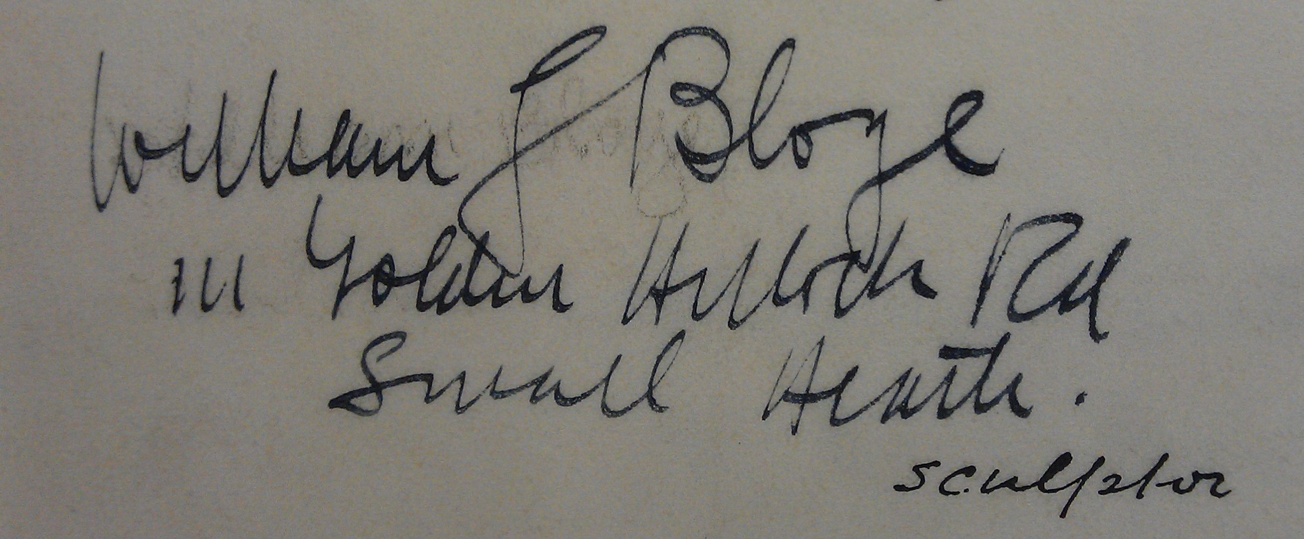 William Bloye's entry in the Royal Birmingham Society of Artists members' register; in his own hand. Dated 1930. Reads: "William J Bloye, 111 Golden Hillock Rd, Small Heath, sculptor"